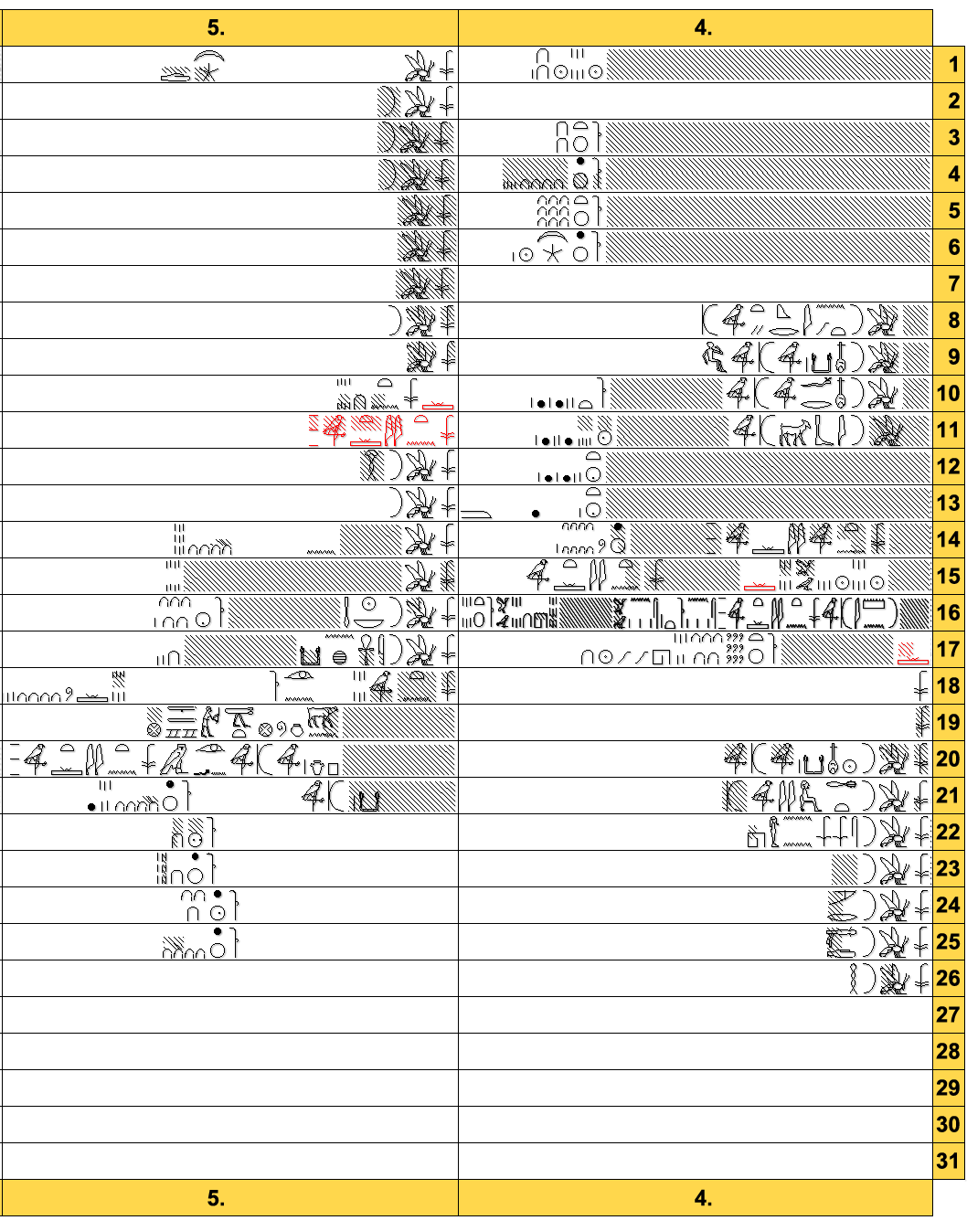 Drawing of the Turin King List (Turin Royal Canon)